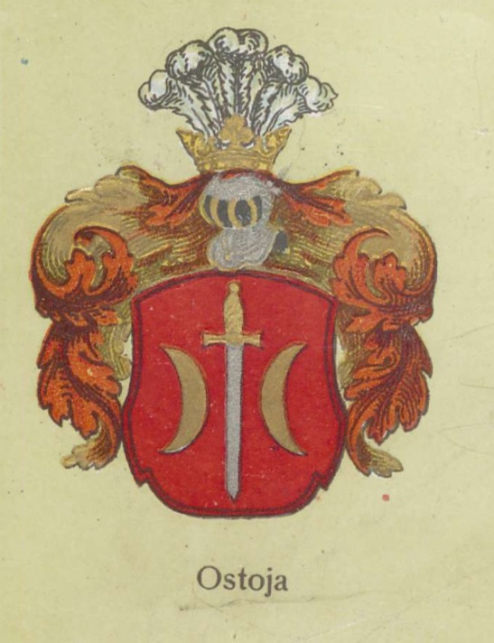 Ostoja according to Zbigniew Leszczyc